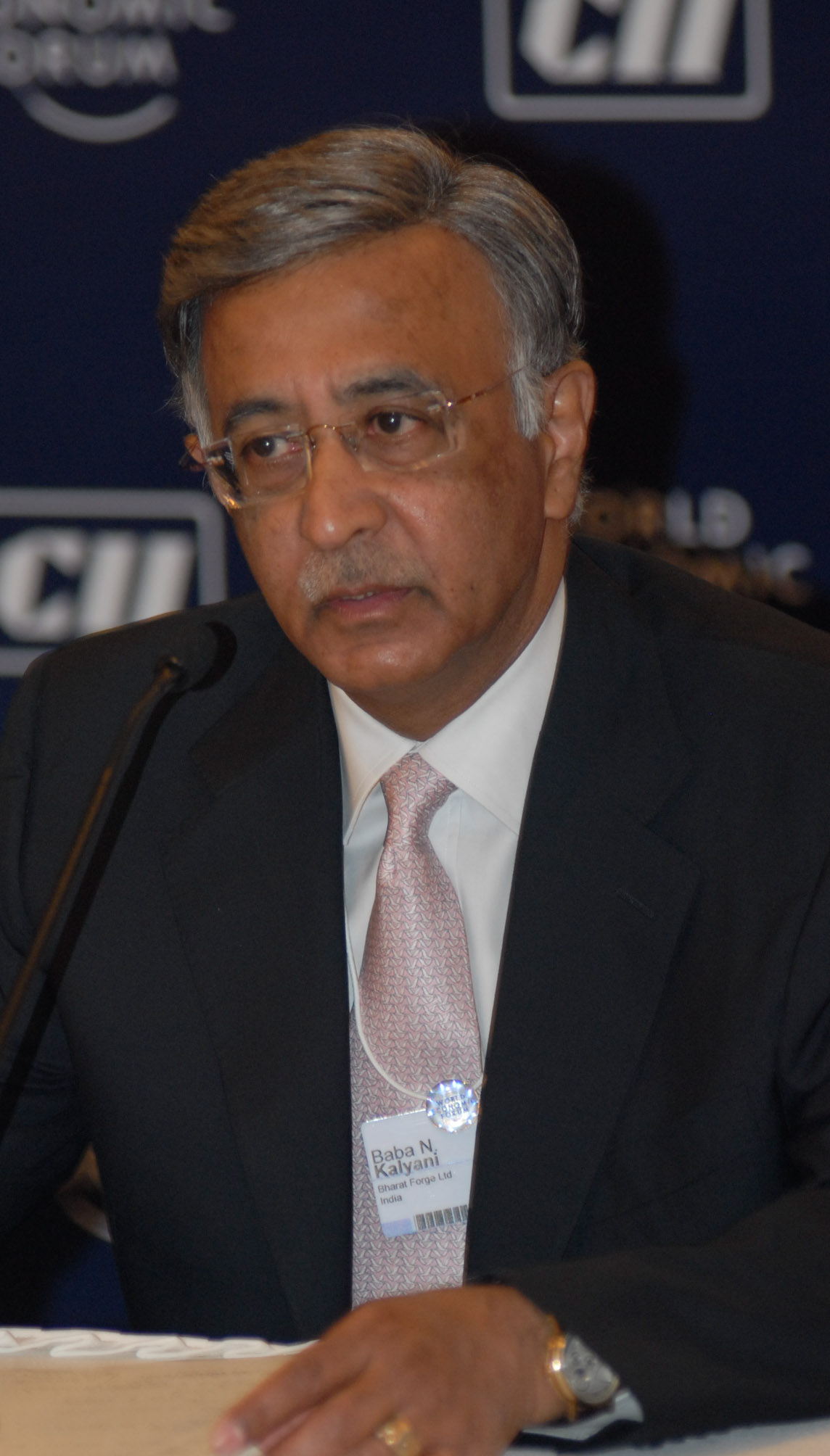 NEW DELHI/INDIA, 08NOV09 - Participants captured during the World Economic Forum's India Economic Summit 2009 held in New Delhi, 8-10 November 2009. Copyright (cc-by-sa) © World Economic Forum/Photo Matthew Jordaan )